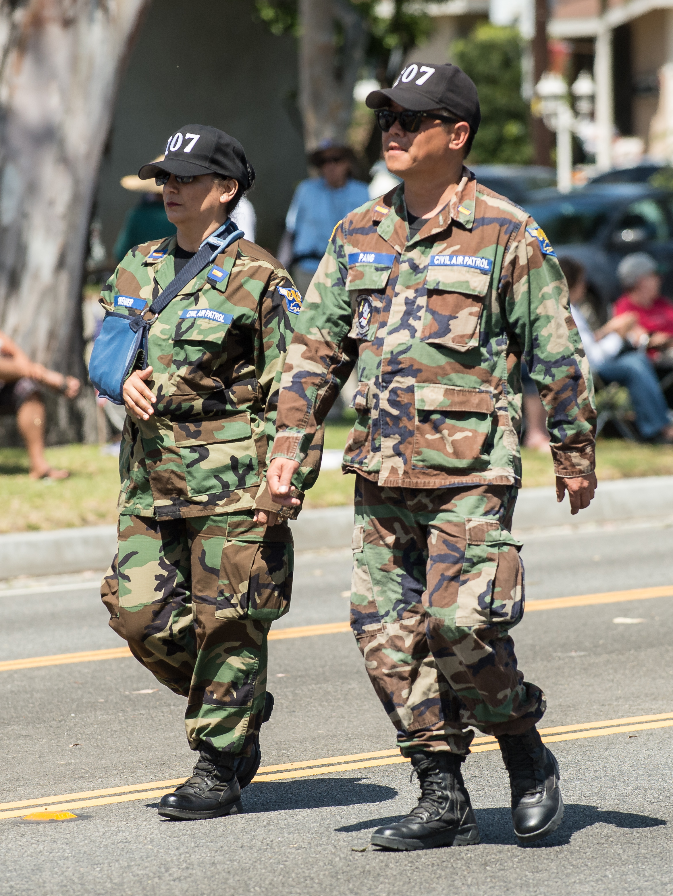 Civil Air Patrol Beach Cities Cadet Squadron 107 Rancho Palos Verdes, CA